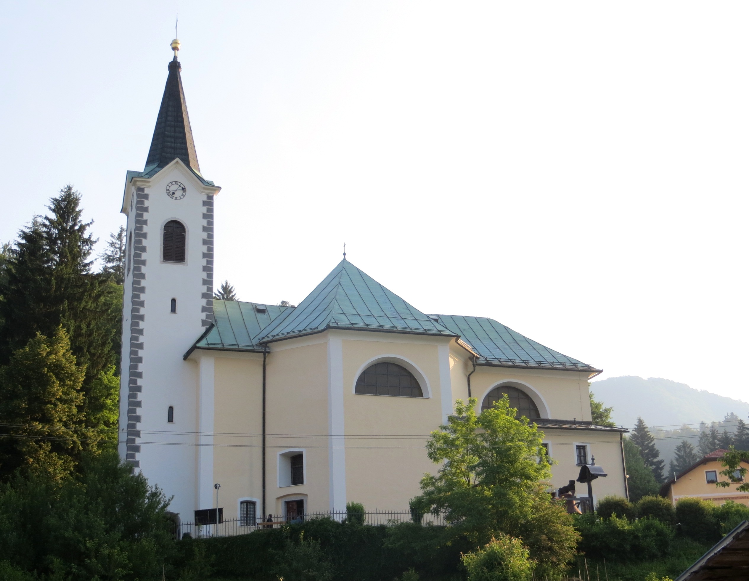 Church in Kamnica, Municipality of Dol pri Ljubljani, Slovenia